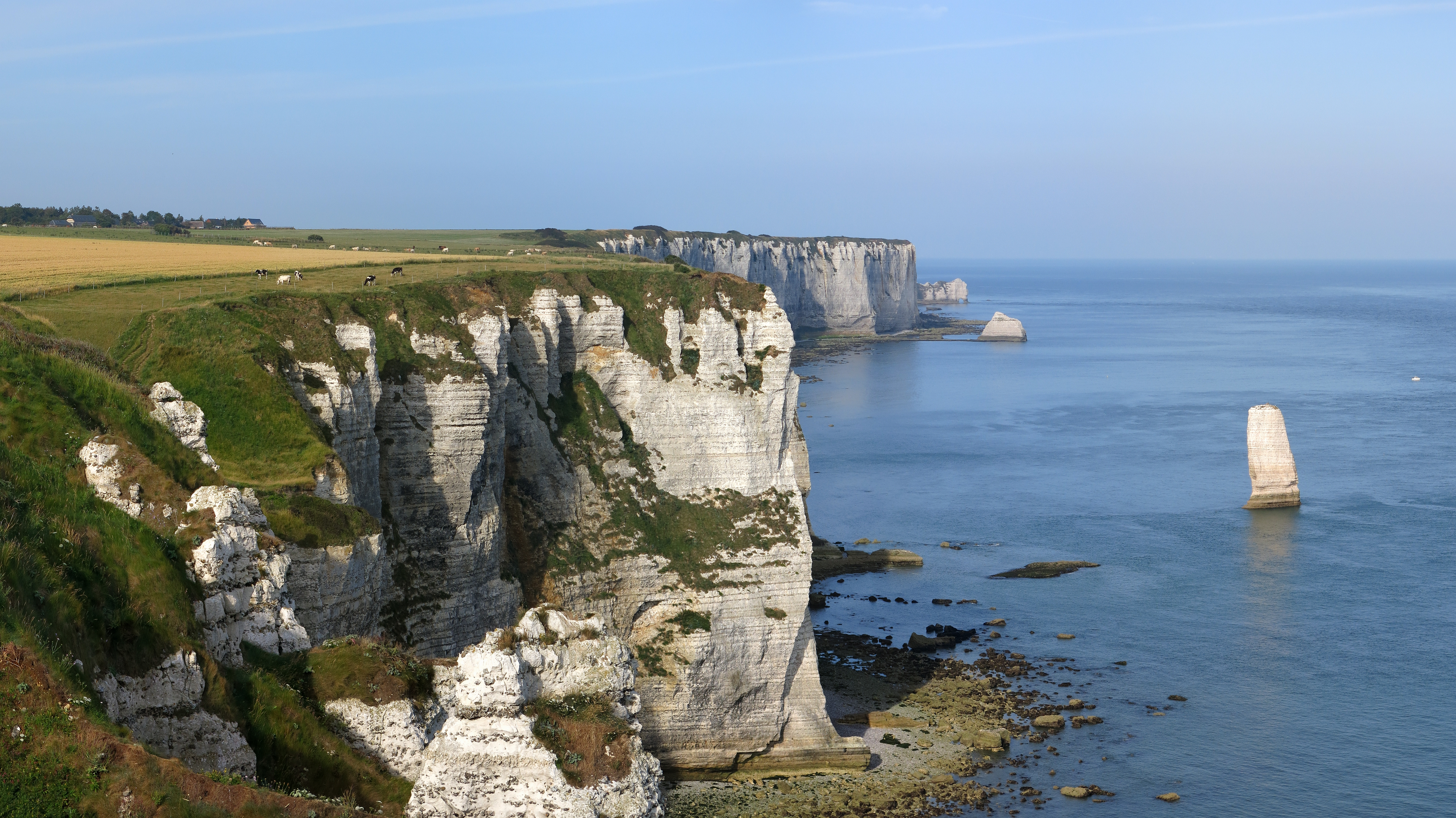 Alabaster coast between Etretat and Yport, Normandy, France